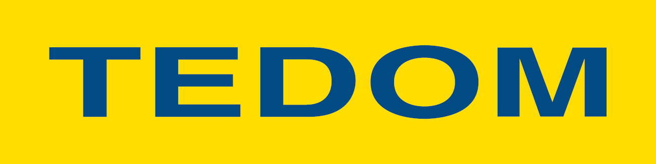 This is a logo of TEDOM company.